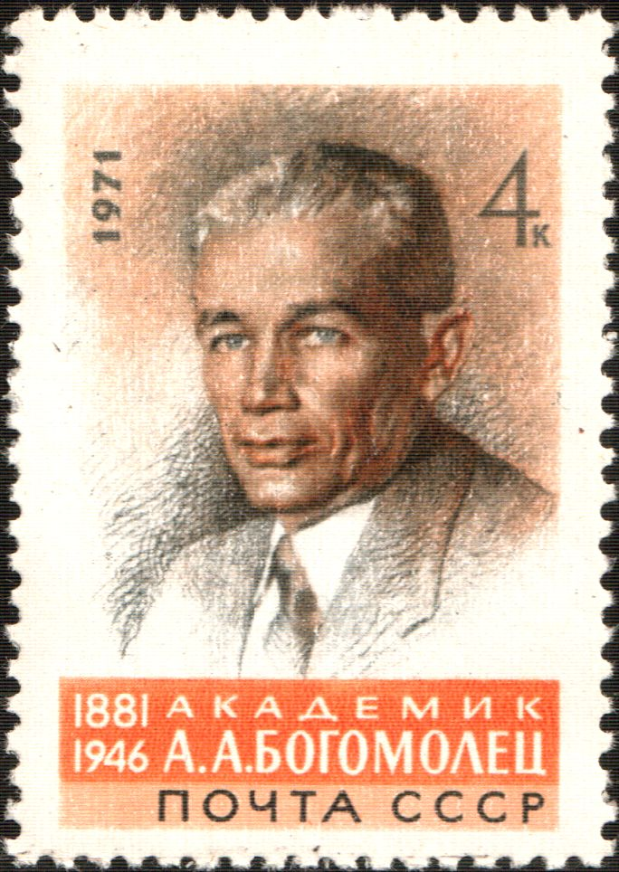 USSR stampː Alexander A. Bogomolets, Hero of Socialist Labour (after Anatoly Yar-Kravchenko).Seriesː 90th Birth Anniversary of Alexander A. Bogomolets, Pathophysiologist, Academician